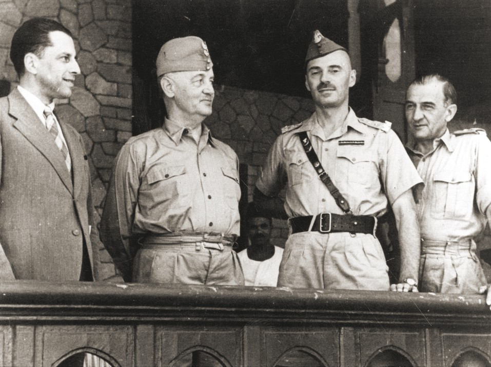 Tadeusz Romer, Gen. Władysław Sikorski, Gen. Władysław Anders, Gen. Tadeusz Klimecki, 1943